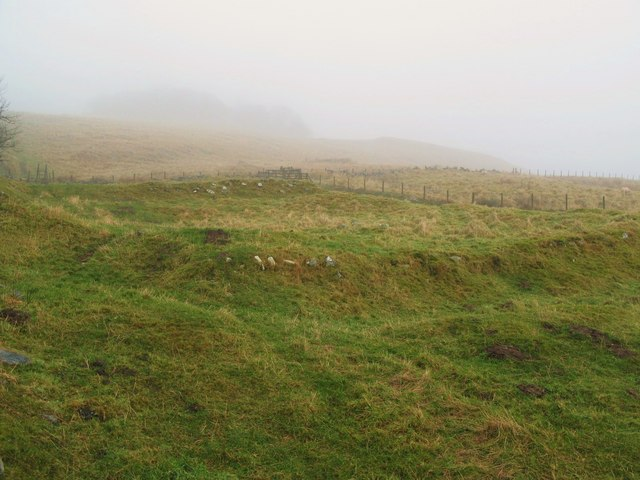 (The site of) Milecastle 38, 4 km from Bardon Mill, Northumberland, Great Britain. Adjacent to Hotbanks Farm - see NY7768 : Crag Lough and farm at Hotbank and NY7768 : Hadrian's Wall above Hotbank Farm and Crag Lough .